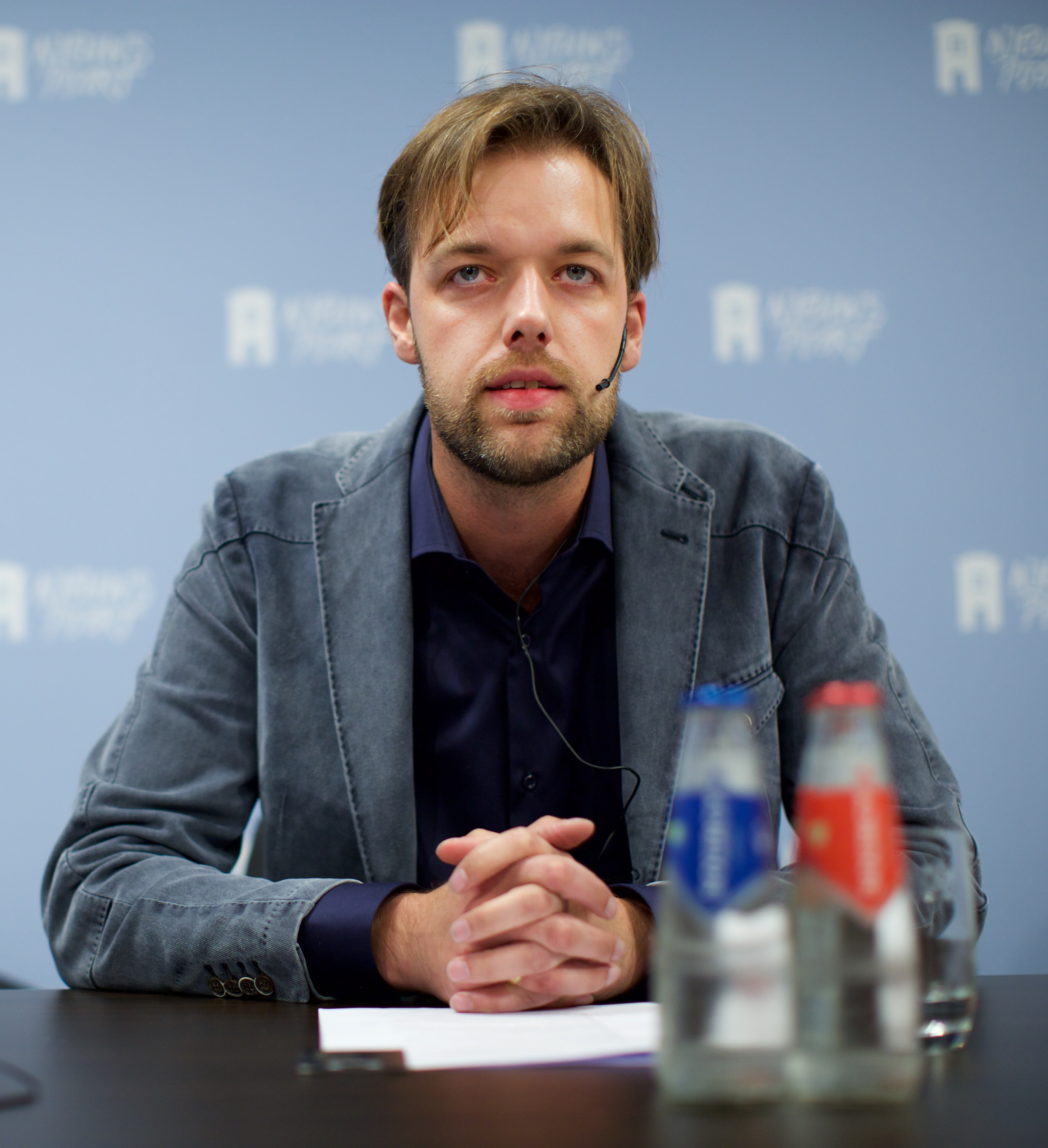 Op zaterdag 26 september vond de negende editie van de jaarlijkse Nacht van de Journalistiek plaats. Dit jaar stond het evenement in het teken van diversiteit in de media. De Nacht van de Journalistiek wordt georganiseerd door ViP, de jongerensectie van de NVJ.